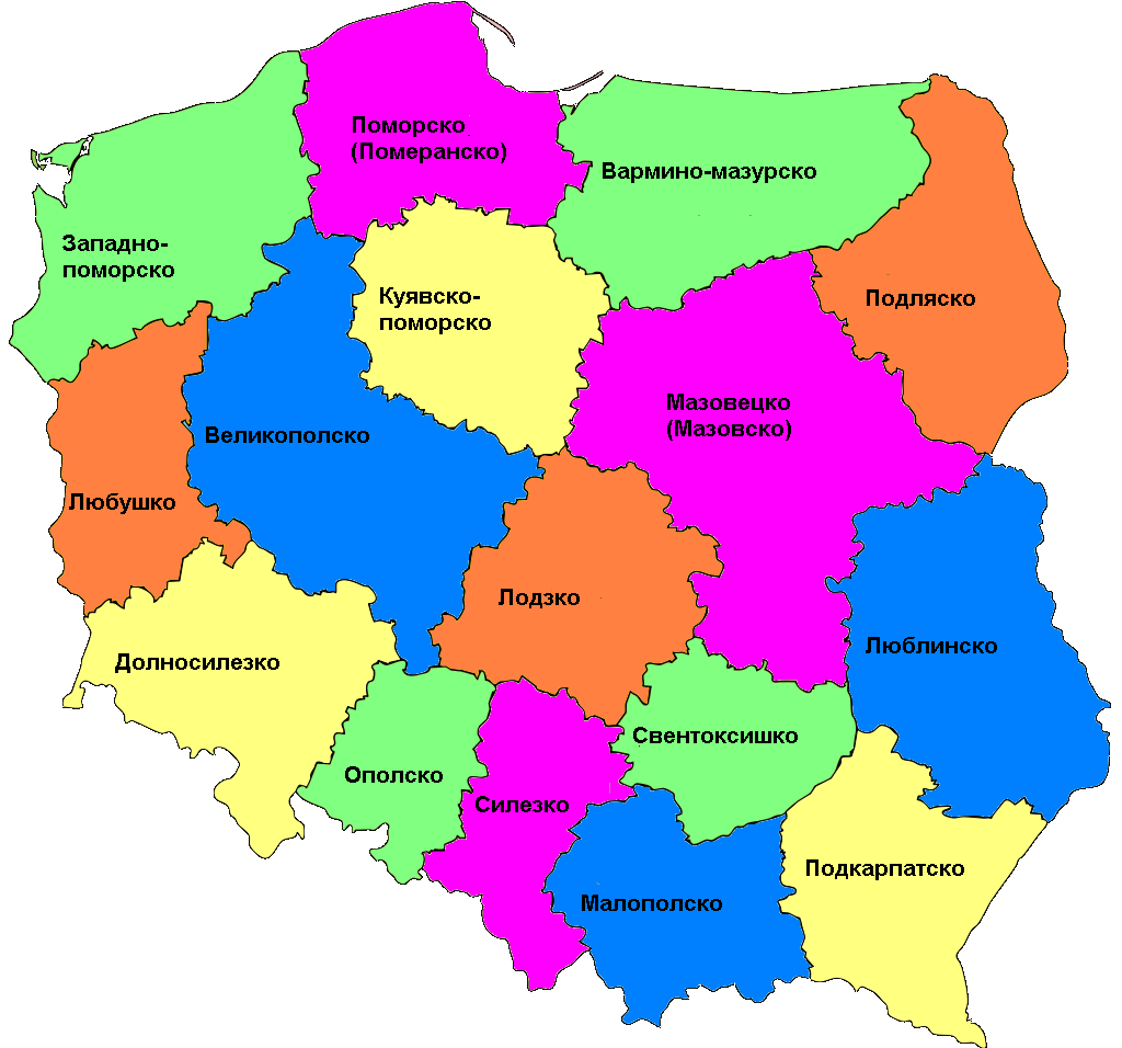 Полските войводства